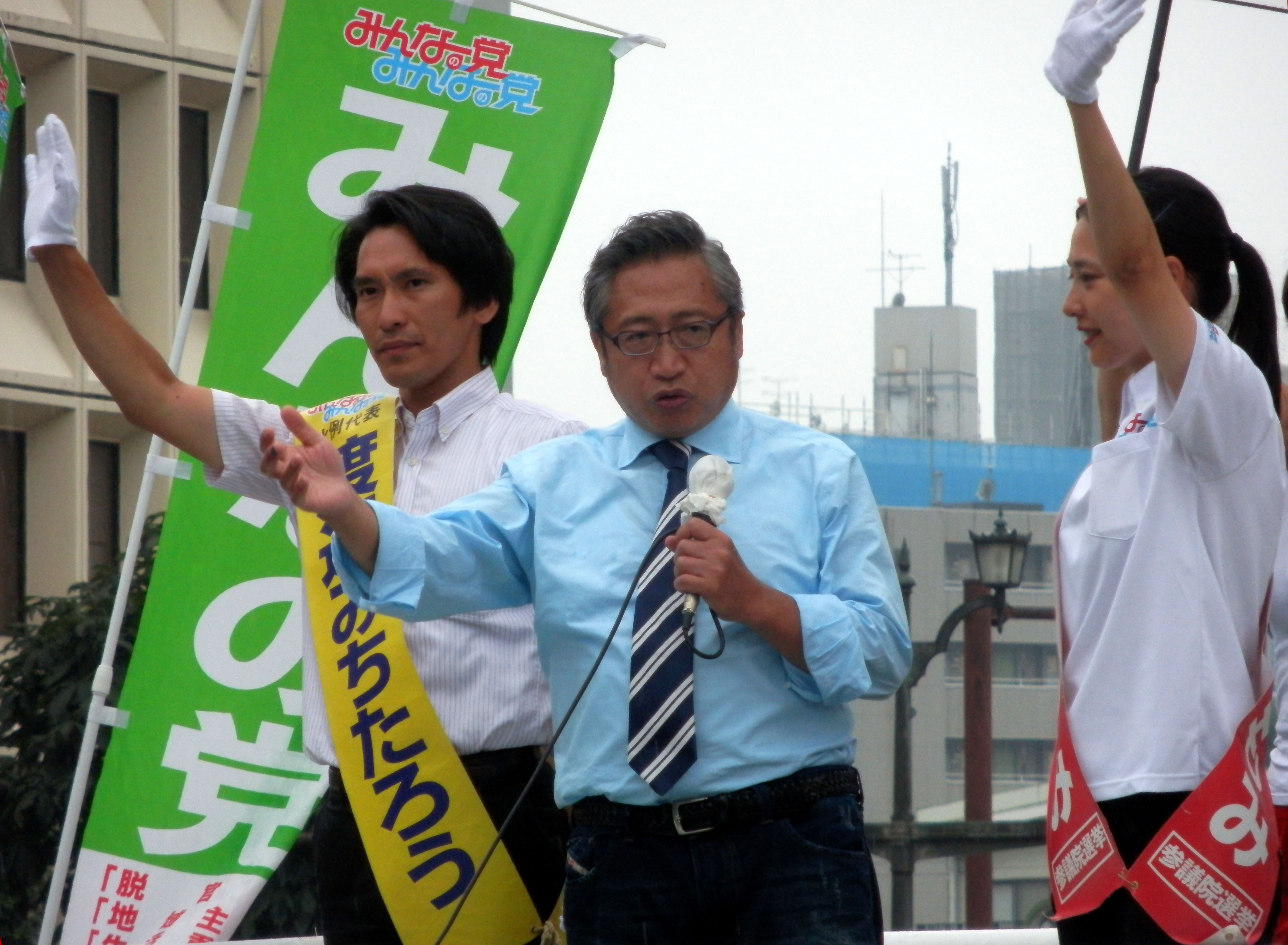 (From left to right) Michitaro Watanabe, Yoshimi Watanabe, Tomomi Oki (Roadside speech in 2013)